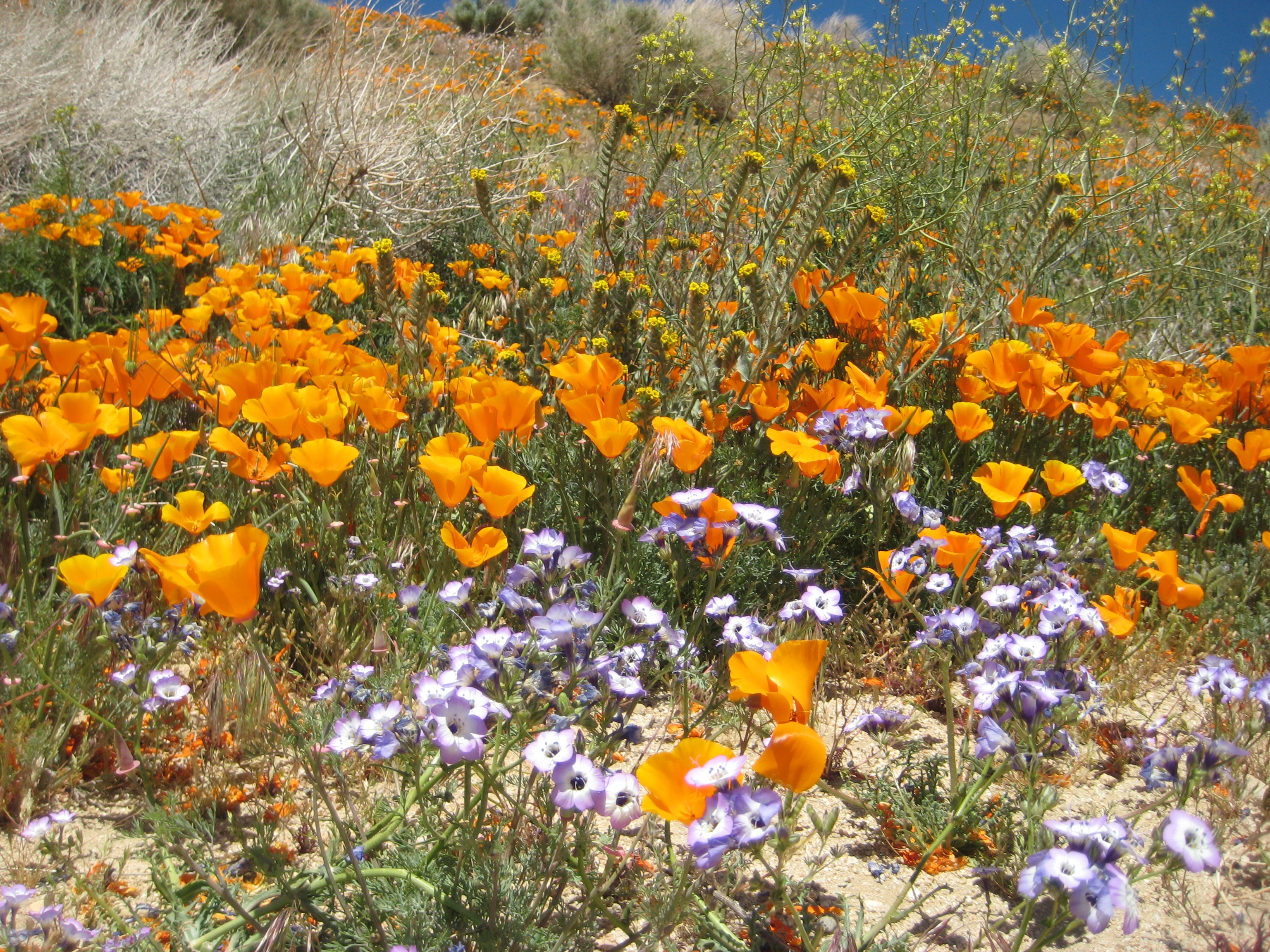 Wildflowers at Antelope Valley California Poppy Reserve